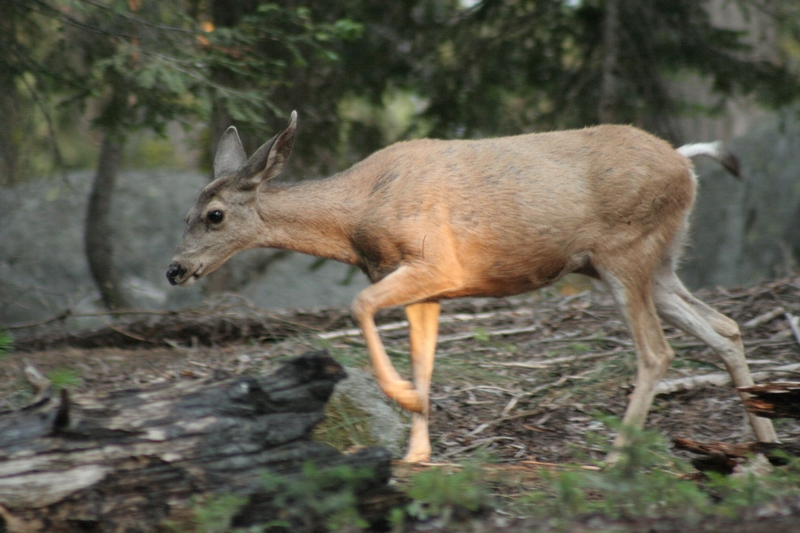 Odocoileus hemionus at Sequoia National Park